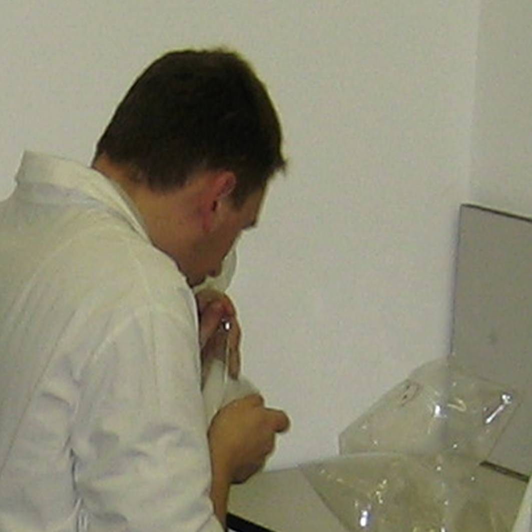 Triangle Odor Bag Method (6)